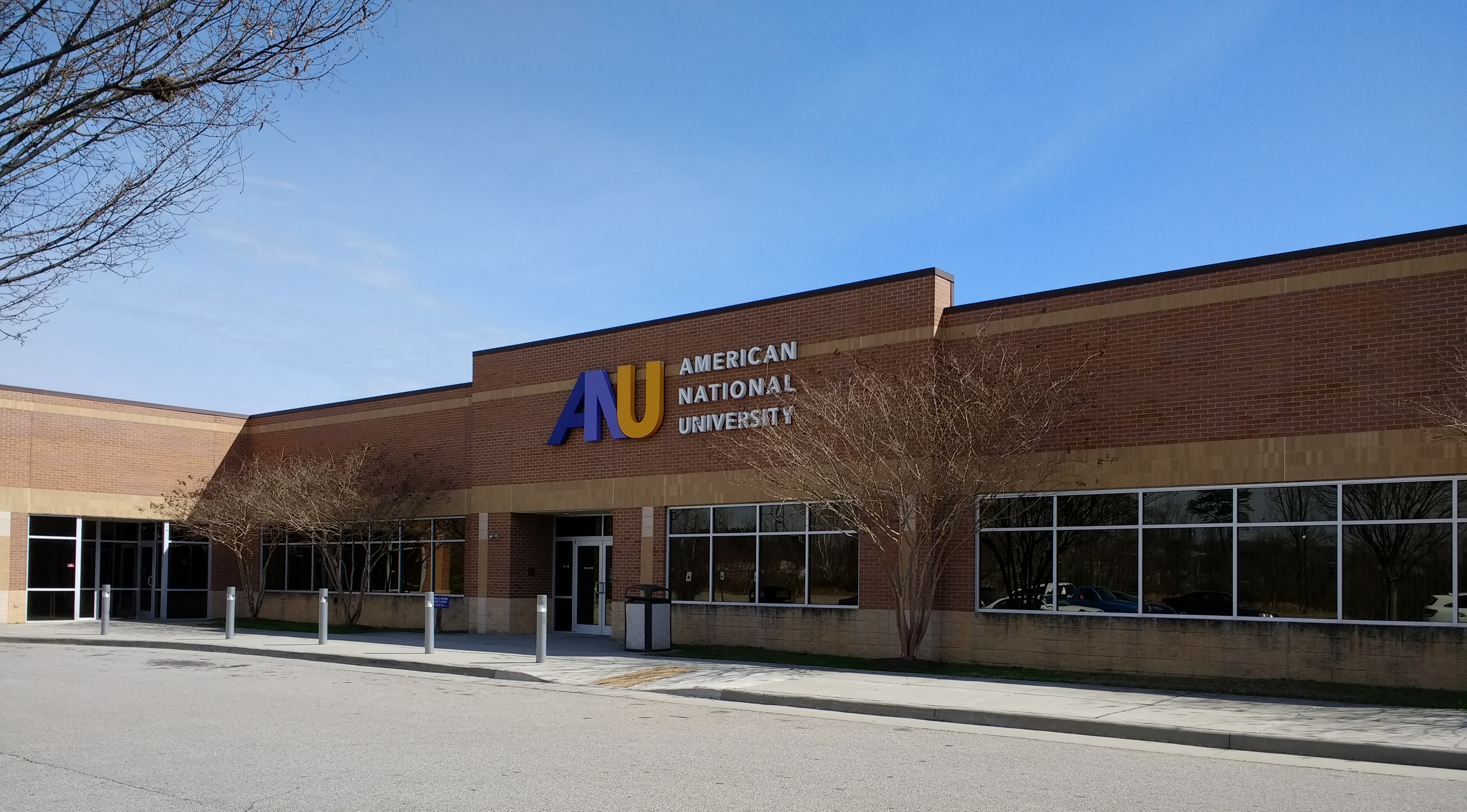 American National University campus in Danville, Virginia.